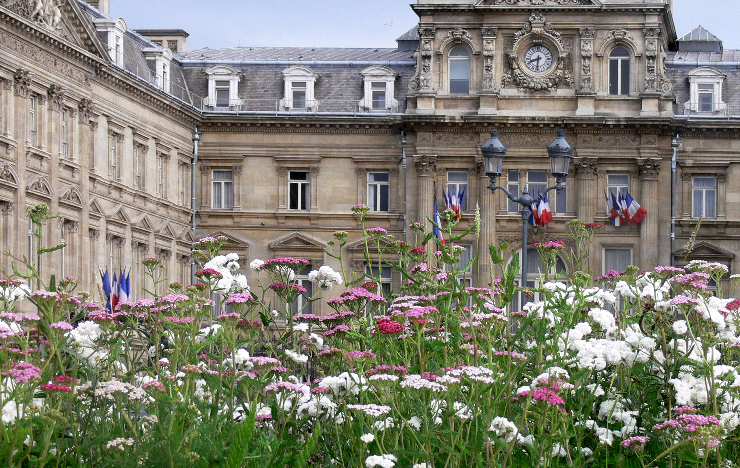 Prefecture of Lille, North of France, June 2008